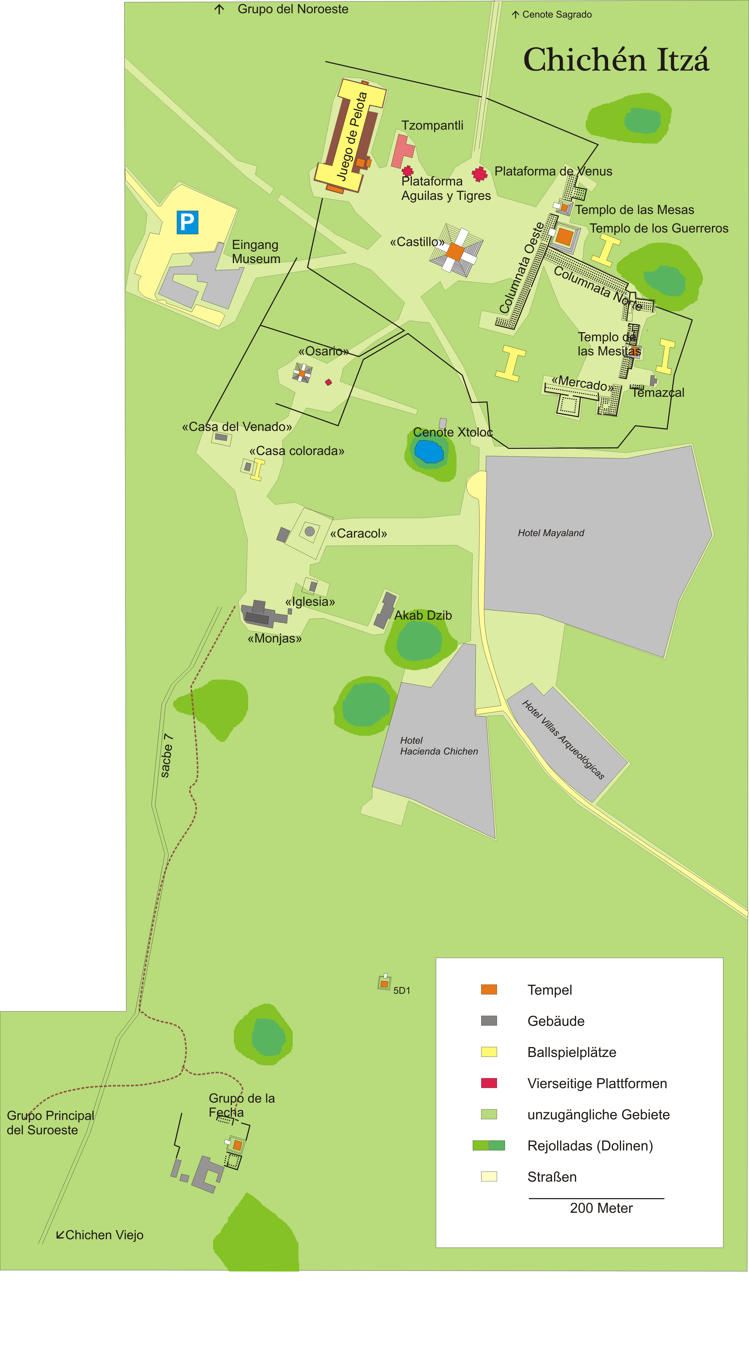 Chichen Itza, Yucatan, Mexico: map